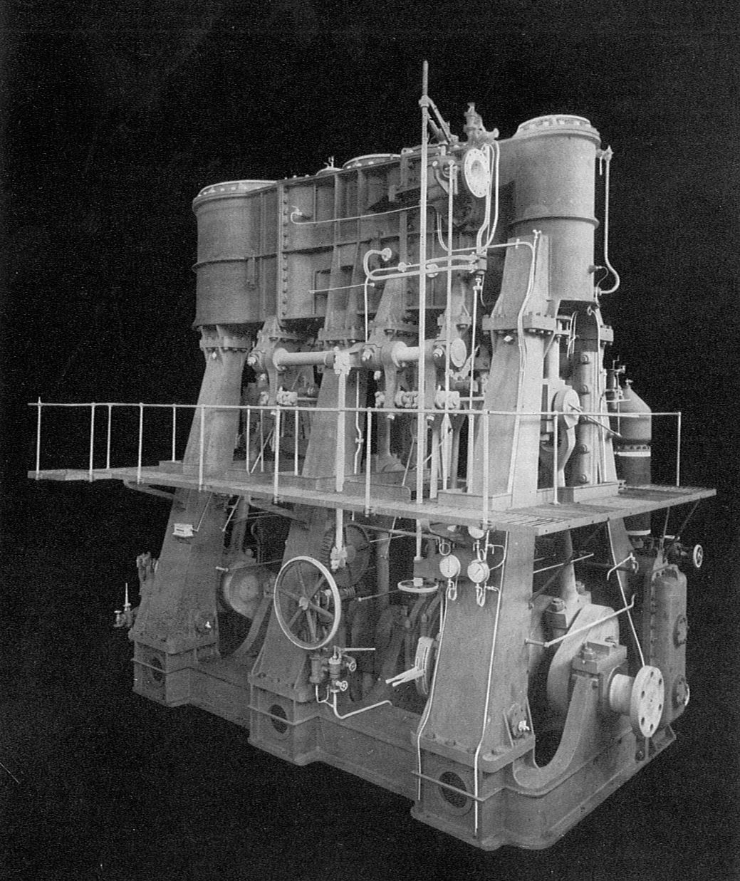 Triple-expansion marine steam engine (Rankin Kennedy, Modern Engines, Vol V).jpg